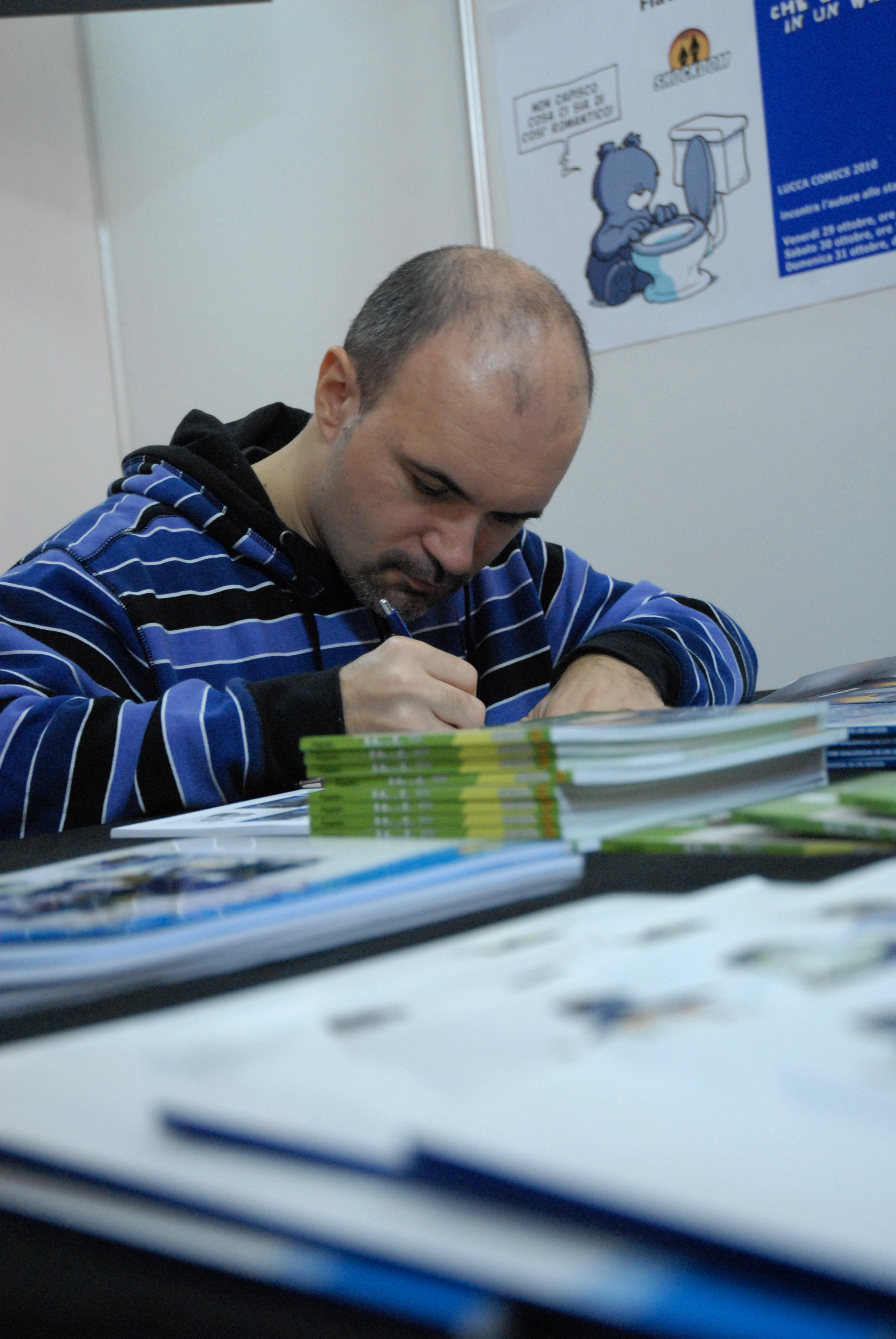 Flavio Nani Photo taken during Lucca Comics&Games 2010